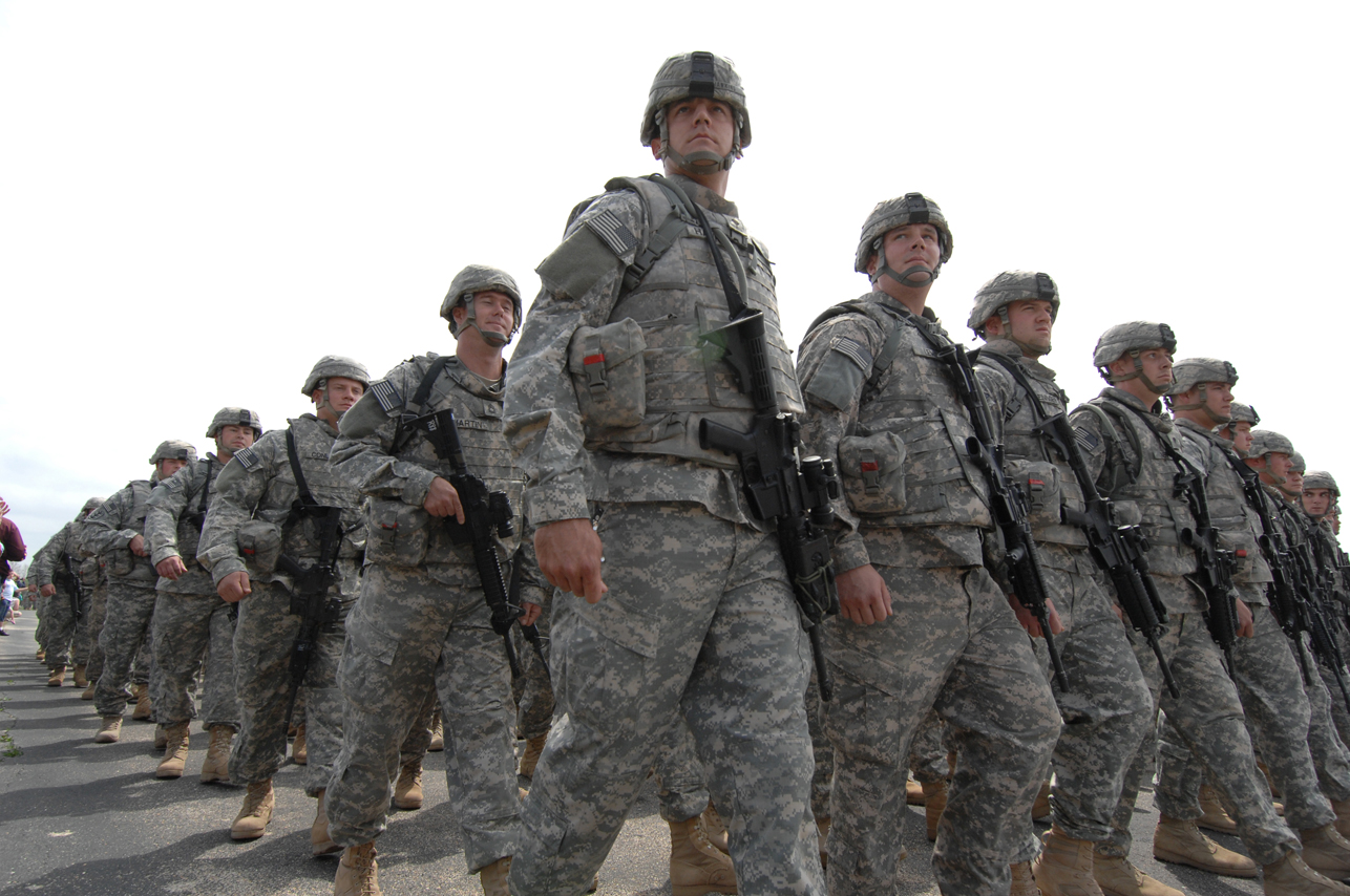 37th Infantry Brigade Combat Team pass and review ceremony, 27 March 2008, Ft. Hood, Texas prior to deployment in support of Operation Iraqi Freedom